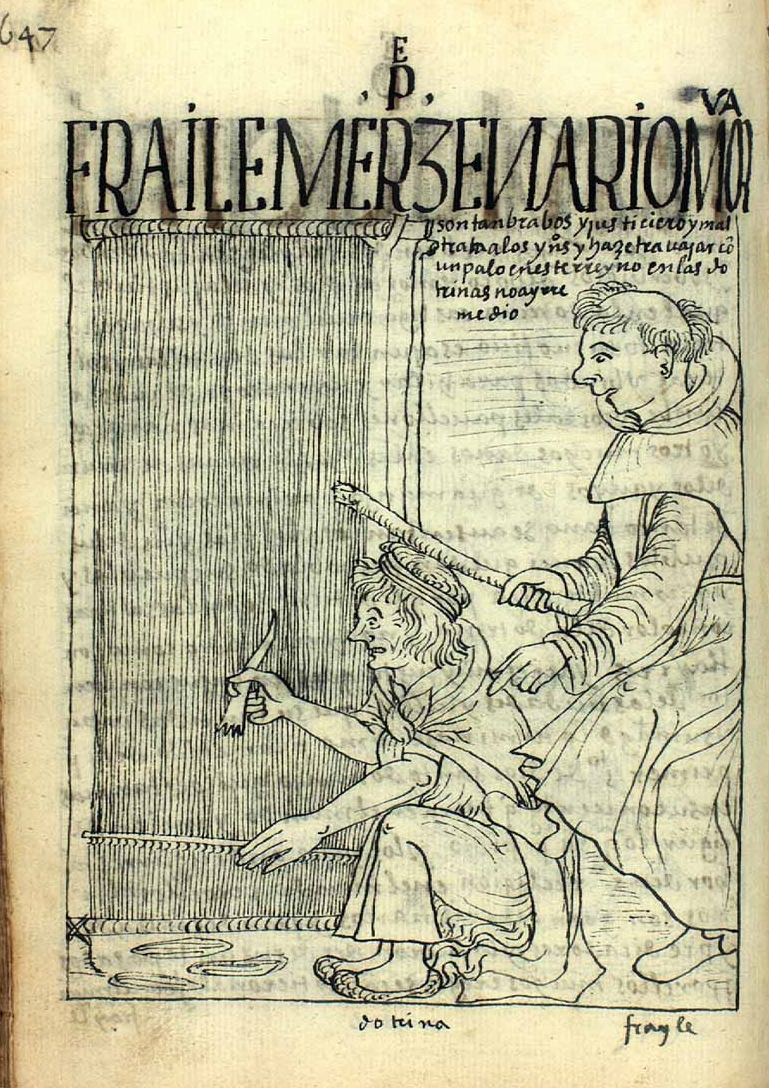 Fray Martín de Murúa mistreating a woman, by Felipe Huamán Poma de Ayala. Nueva Corónica f. 661v